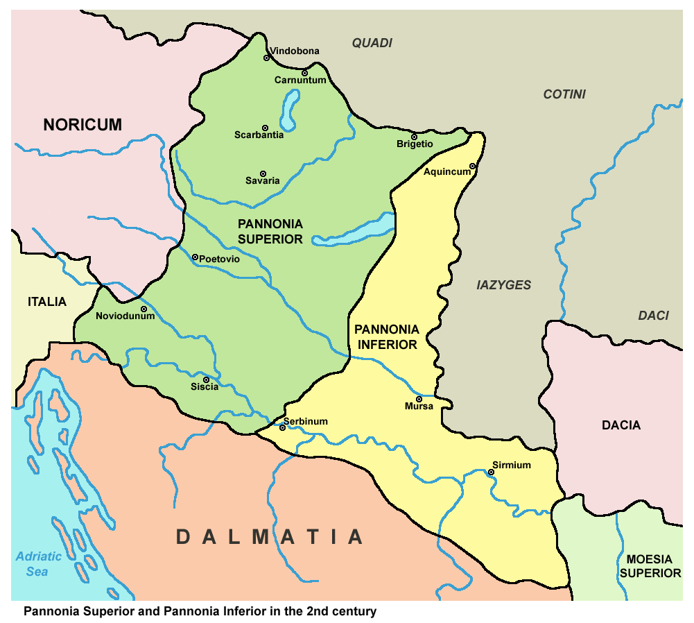 Historic map - Roman provinces Pannonia Superior and Pannonia Inferior in the 2nd century.